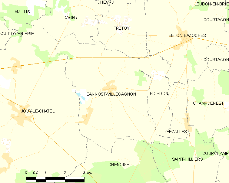 Map of French municipality Bannost-Villegagnon